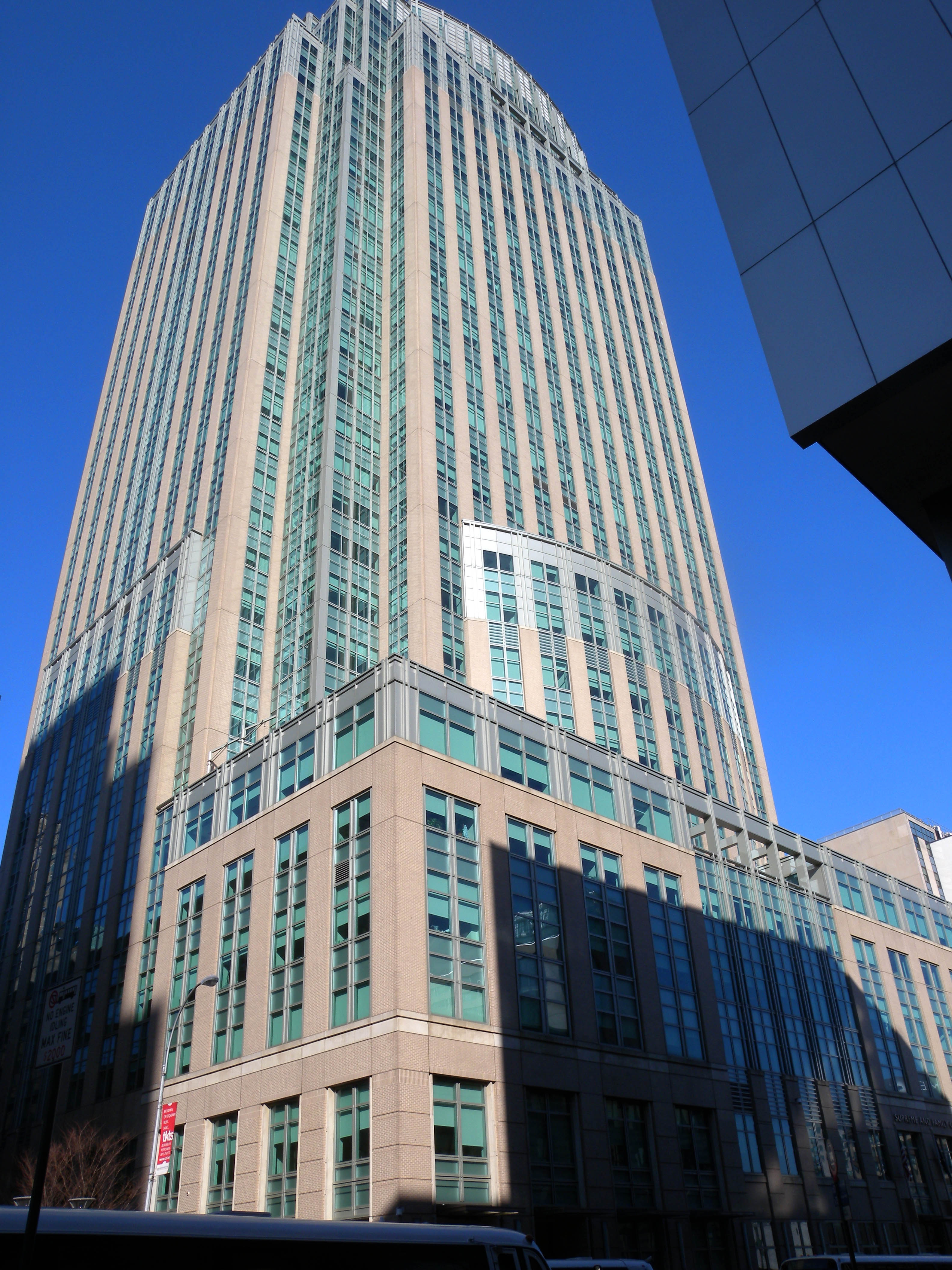 Looking north along Jay Street at courthouse on a sunny morning.